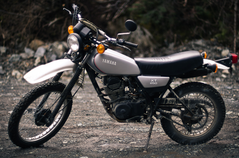 Yamaha XT 250 of 1981